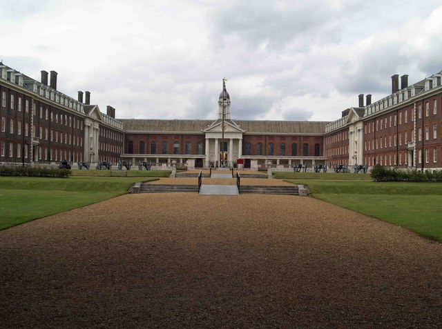 The Royal Hospital, Chelsea Founded in 1682 by Charles II, the home of the Chelsea pensioner.